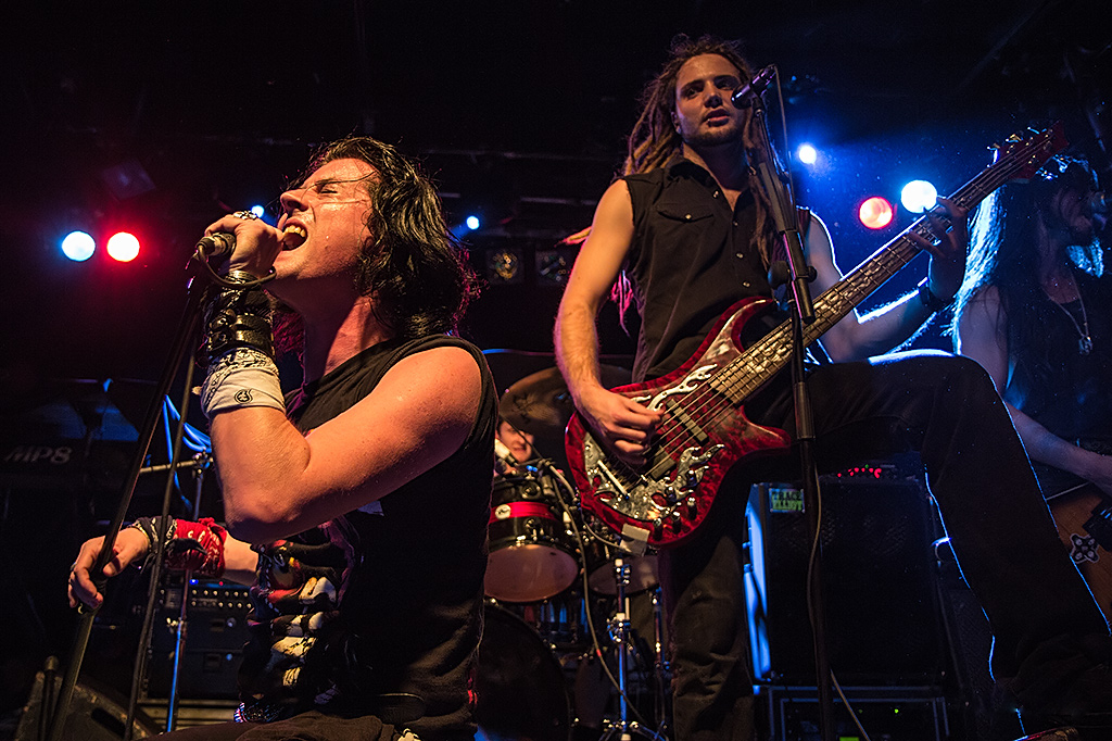 Neonfly - 5.11.2012 Hirsch, Nürnberg